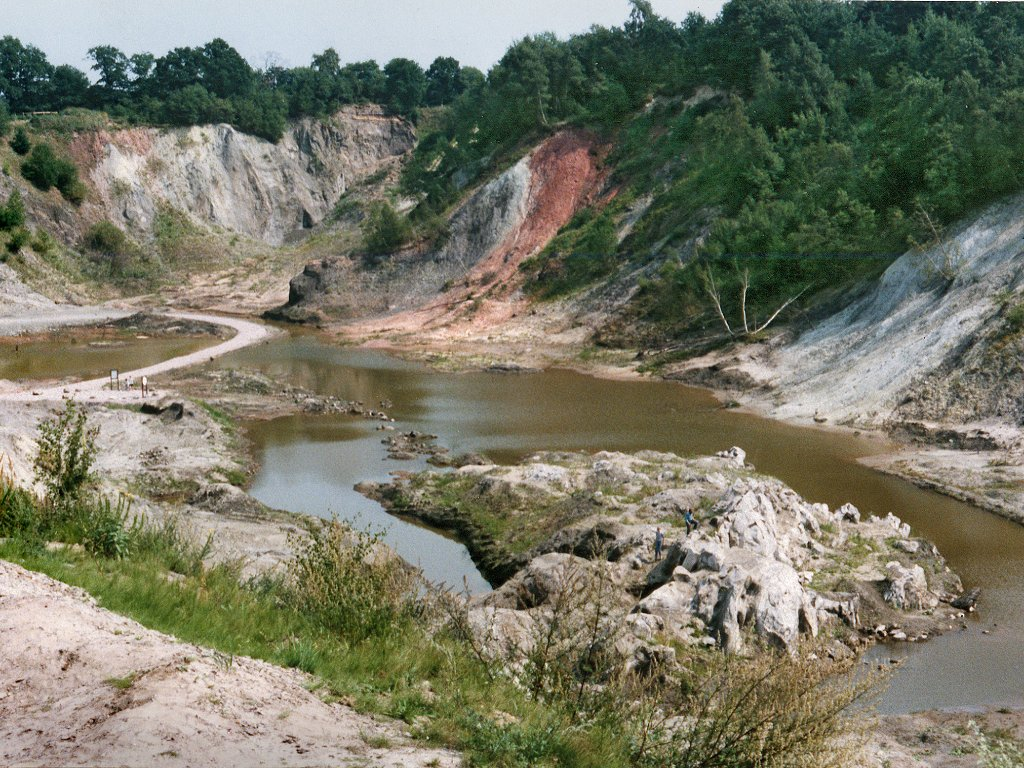 Lime-pit Lieth, Klein Nordende, Schleswig-Holstein (Germany), photo 2000